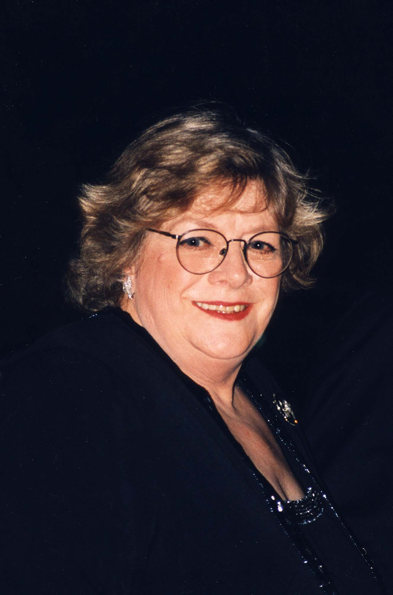 Rosemary Clooney June 1997 new york city outside Lena Hornes birthday party